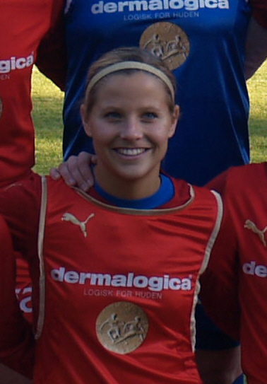 Røa wearing shirts with the gold medal on them, as they were not awarded their gold by the NFF.